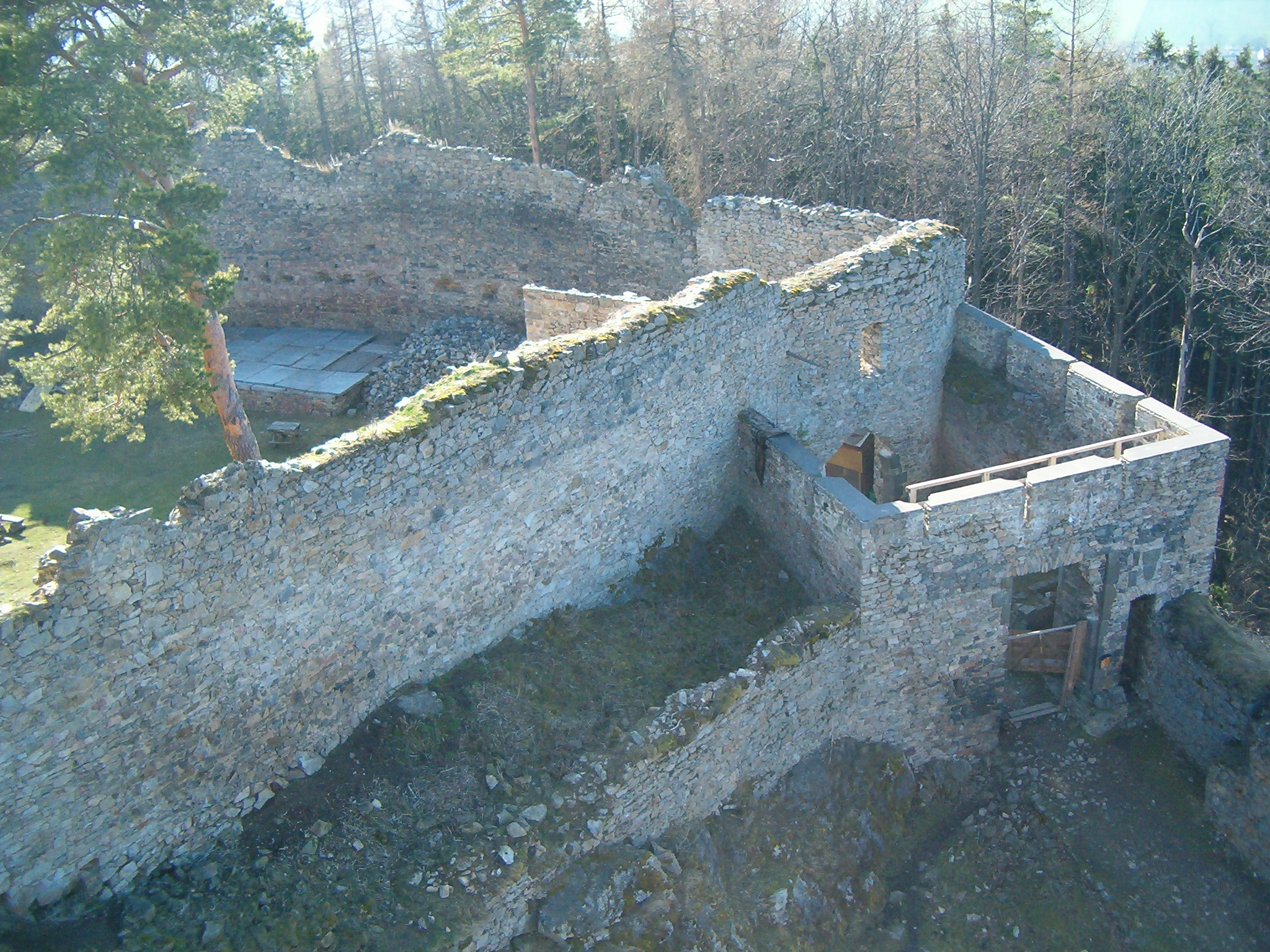 Helfenburk near Bavorov - sight from nord tower to second and third courtyard, South Bohemia.